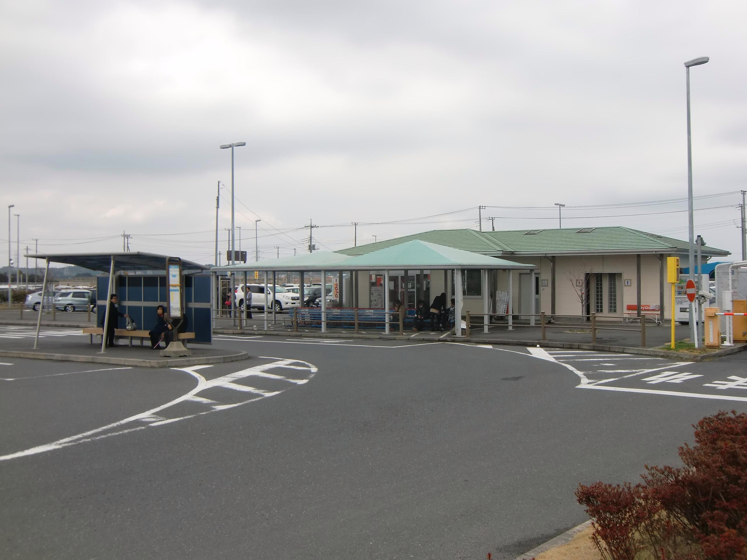 Suigō-Itako Bus Terminal in Itako city, Ibaraki prefecture, Japan.